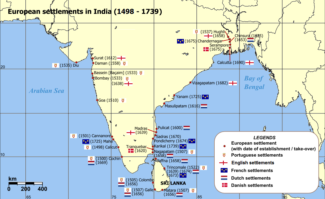 Map of India with Sri Lanka, illustrating locations of European settlements in the subcontinent between 1501 and 1739.